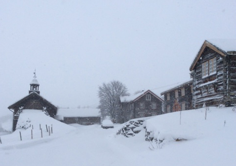 The loghouse farm Bjerkaker, Oppdal, Norway